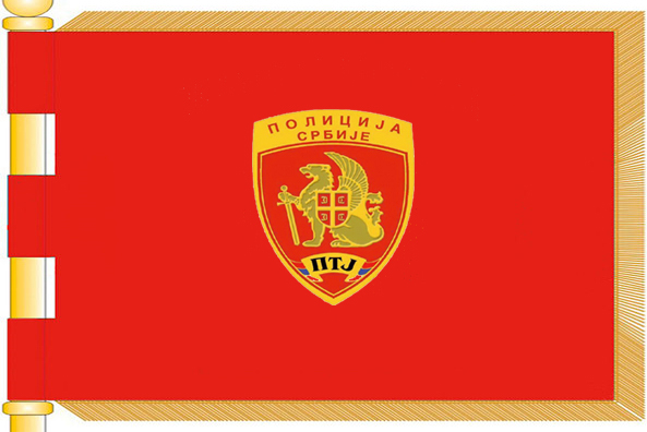 PTJ (Anti-terror unit)